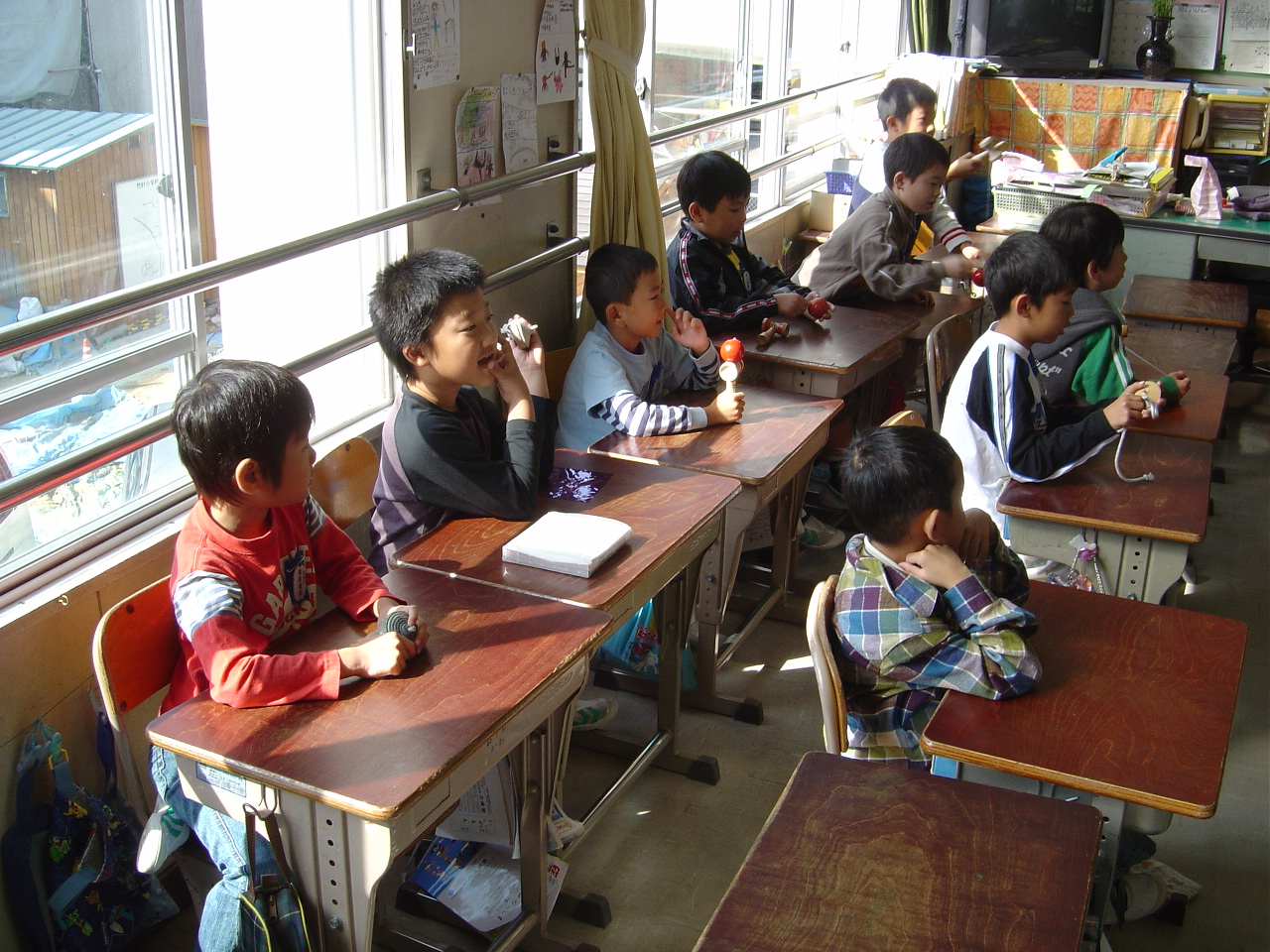 A typical class in a Japanese elementary school.